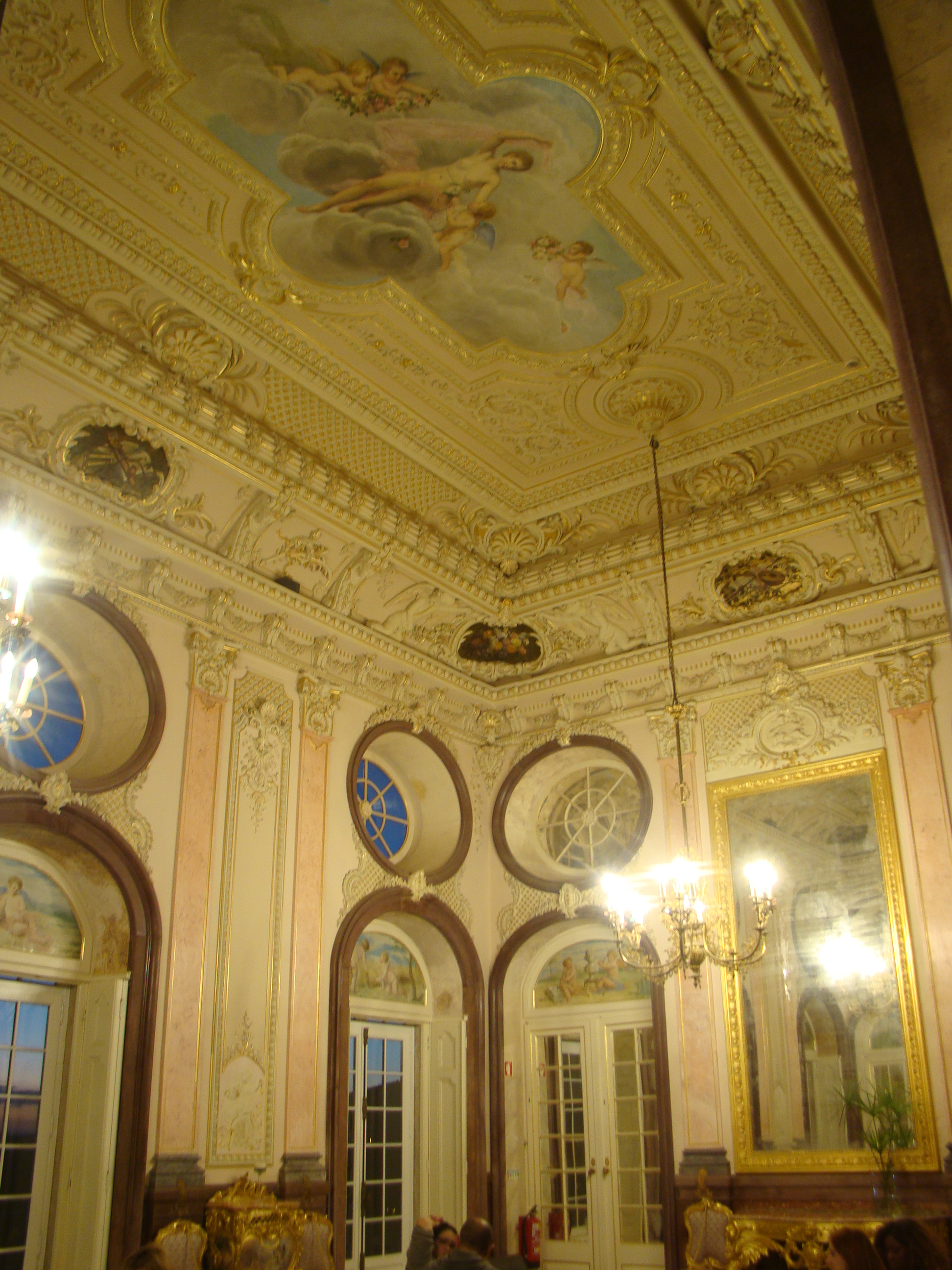 Decoration of a hall in Estoi's Palace, in Faro, Southern Portugal. Photo taken on 30/11/2018.